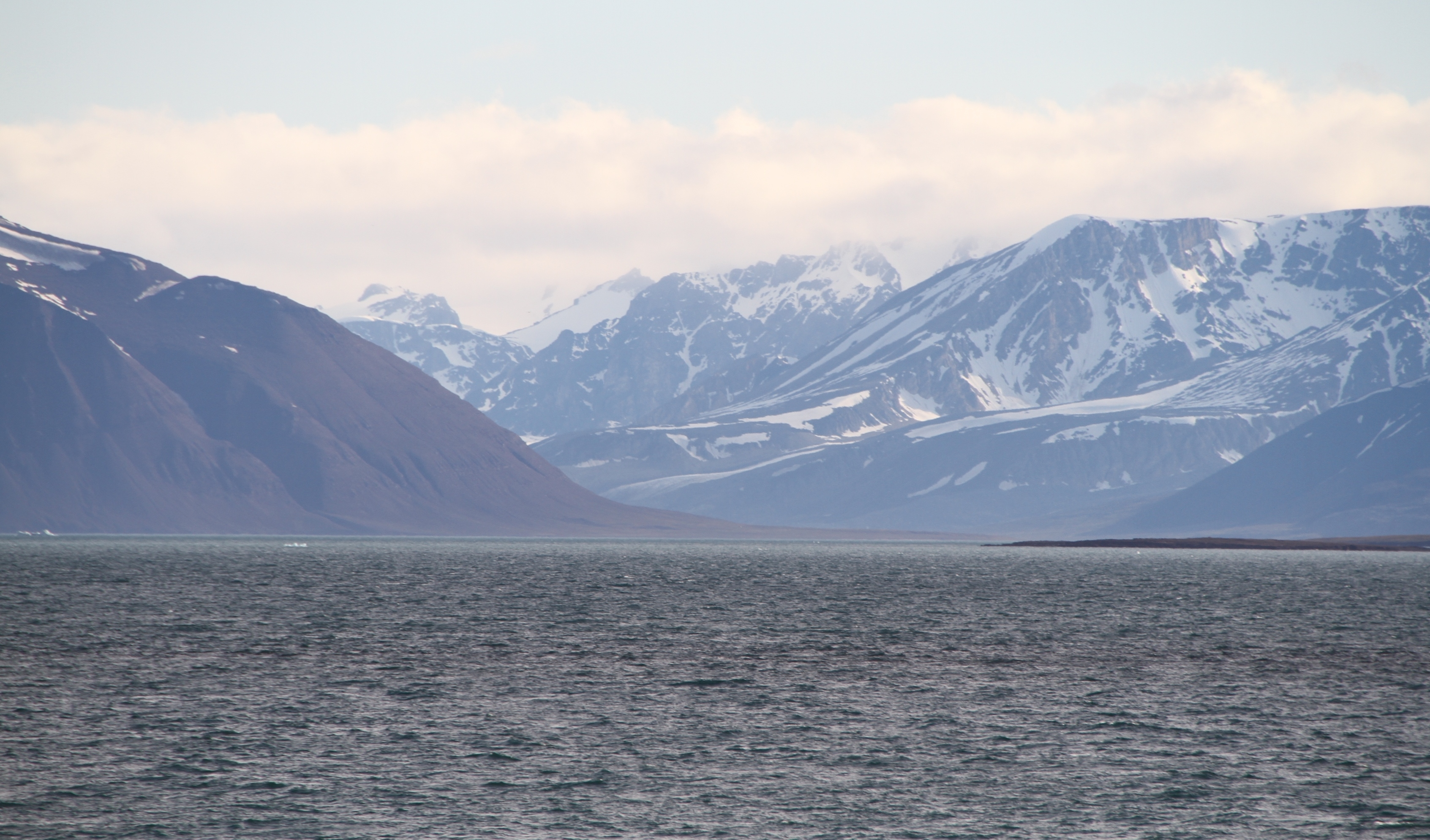 Photo from northeastern Haakon VII Land, on northern Spitsbergen. The western basin of the Woodfjorden area.